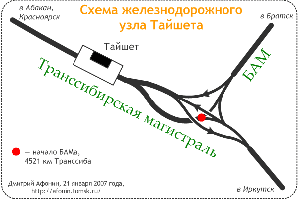 Taishet railways scheme